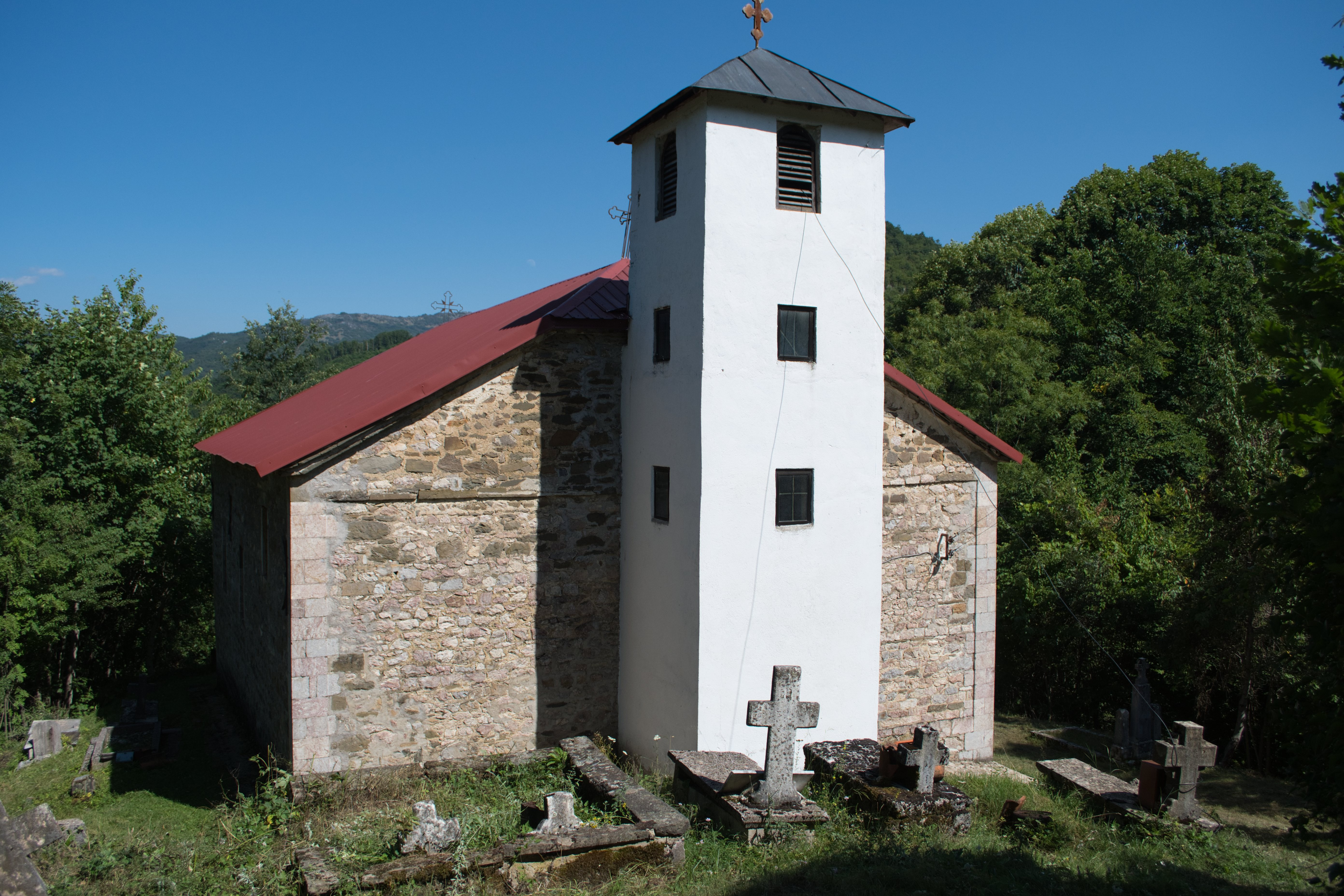 Nativity of the Theotokos Church in the village of Drenok